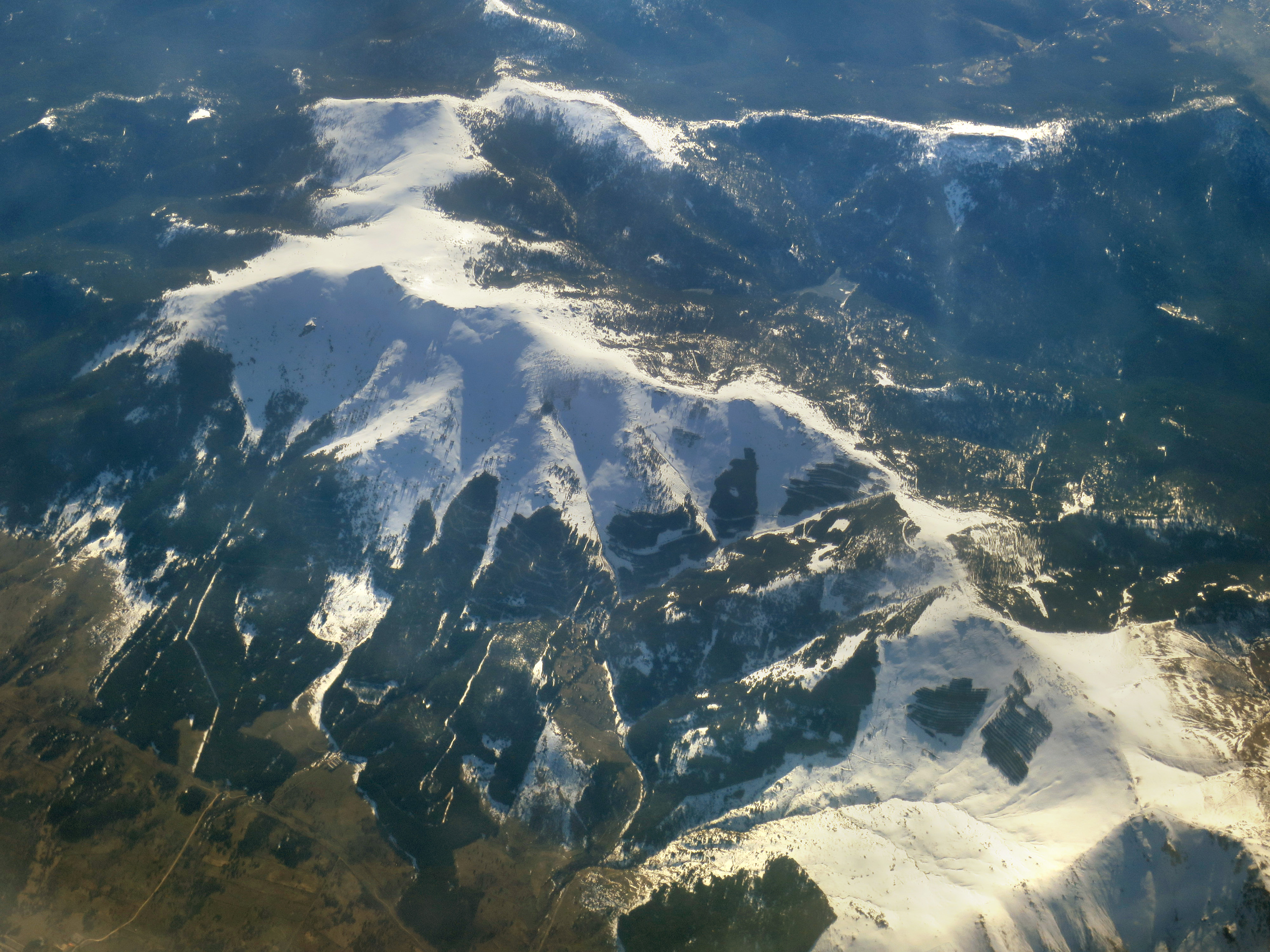 Aerial view of La Mujer Muerta, which is part of the Sierra de Guadarrama in Spain.